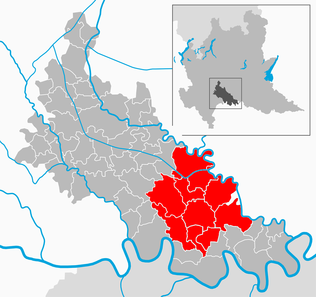 Communes of Lodi Province quarantined 22 February-7 March due to COVID-19.